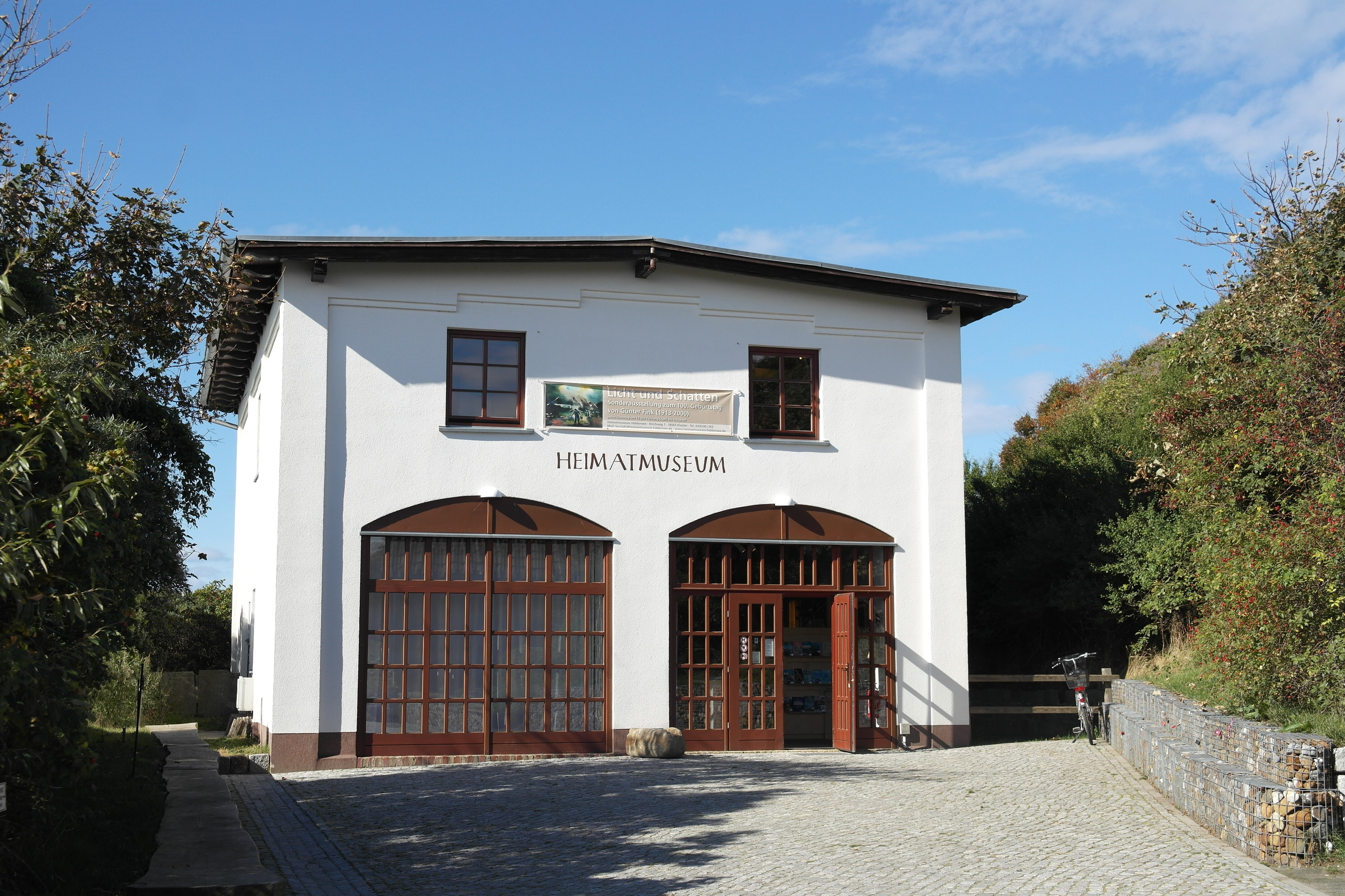 Kloster,Hiddensee, former sea rescue station, now museum, cultral heritage